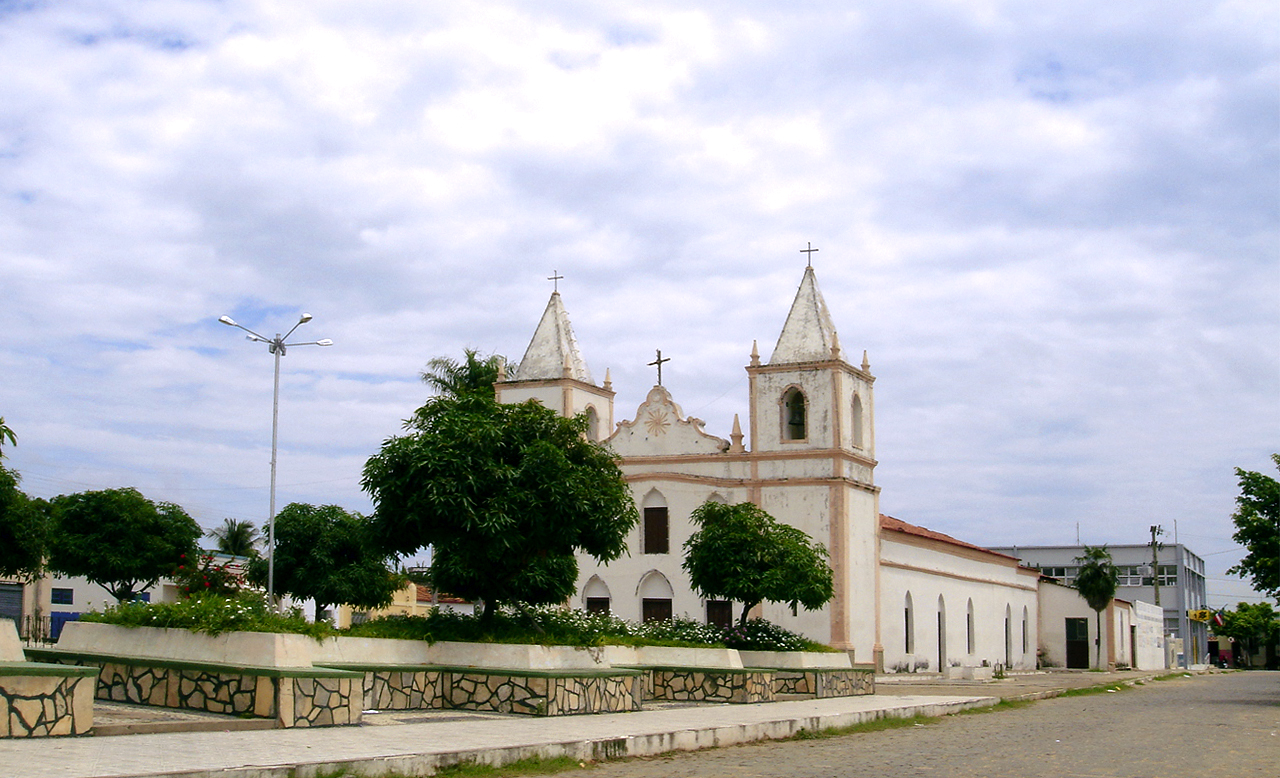 Central plaza of Carinhanha, March 2005.